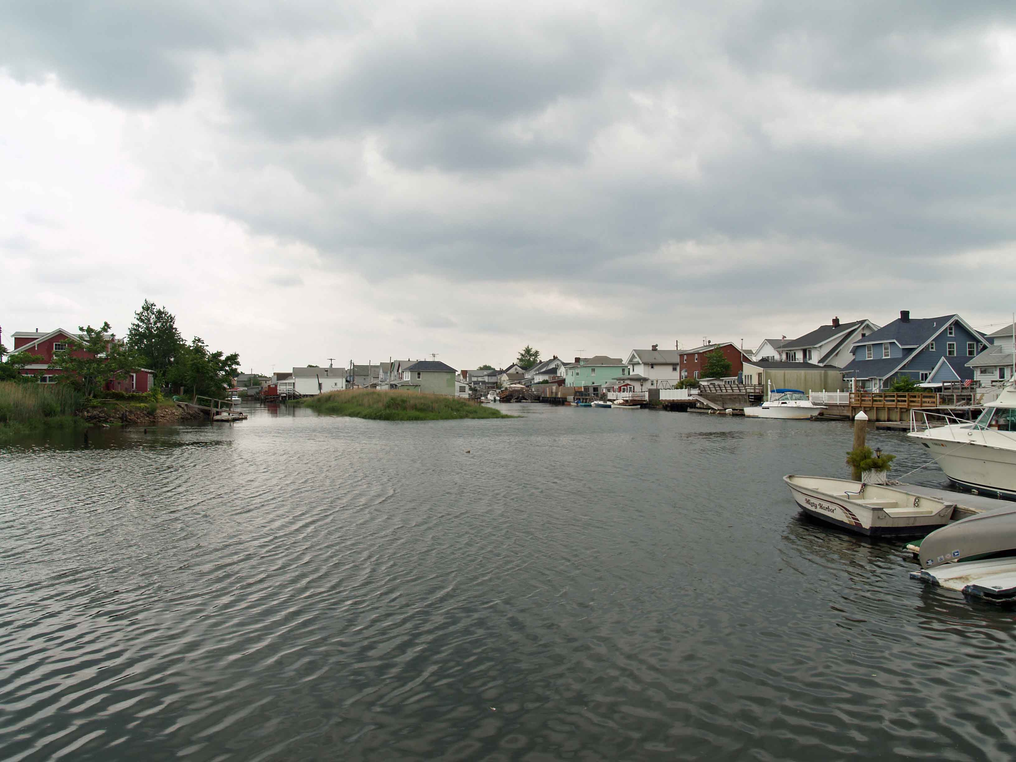 Looking south from 199th Street at homes on Howard Beach Aqueduct.